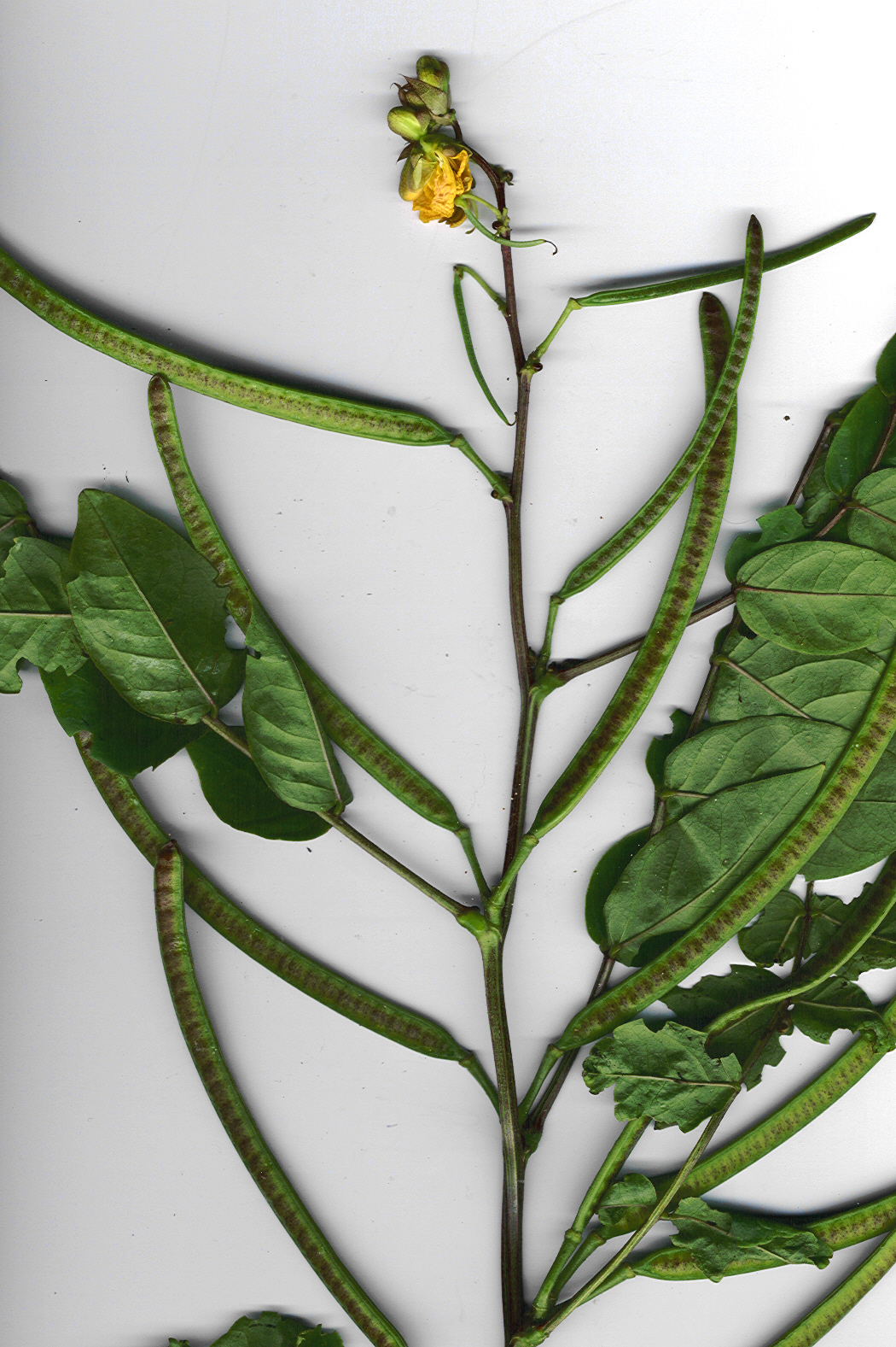 Senna occidentalis (plant). Location: Maui, side rd Maliko Pt